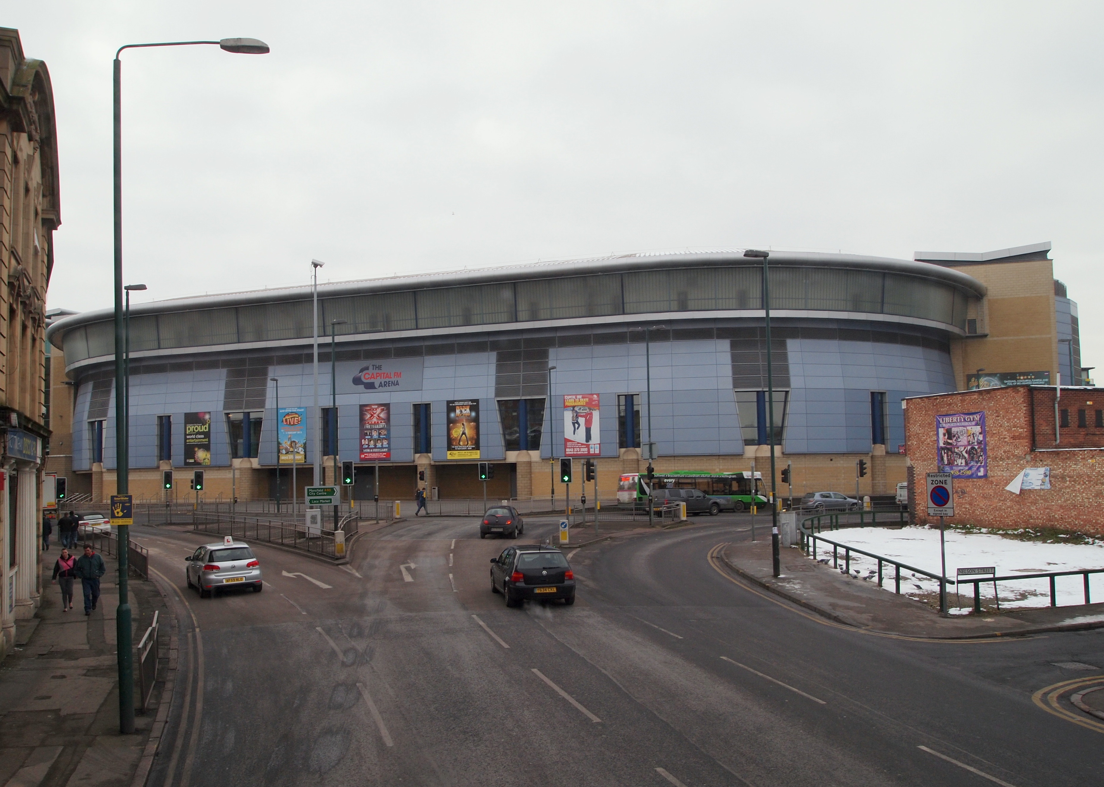 Nottingham, NG3 - Southwell Road